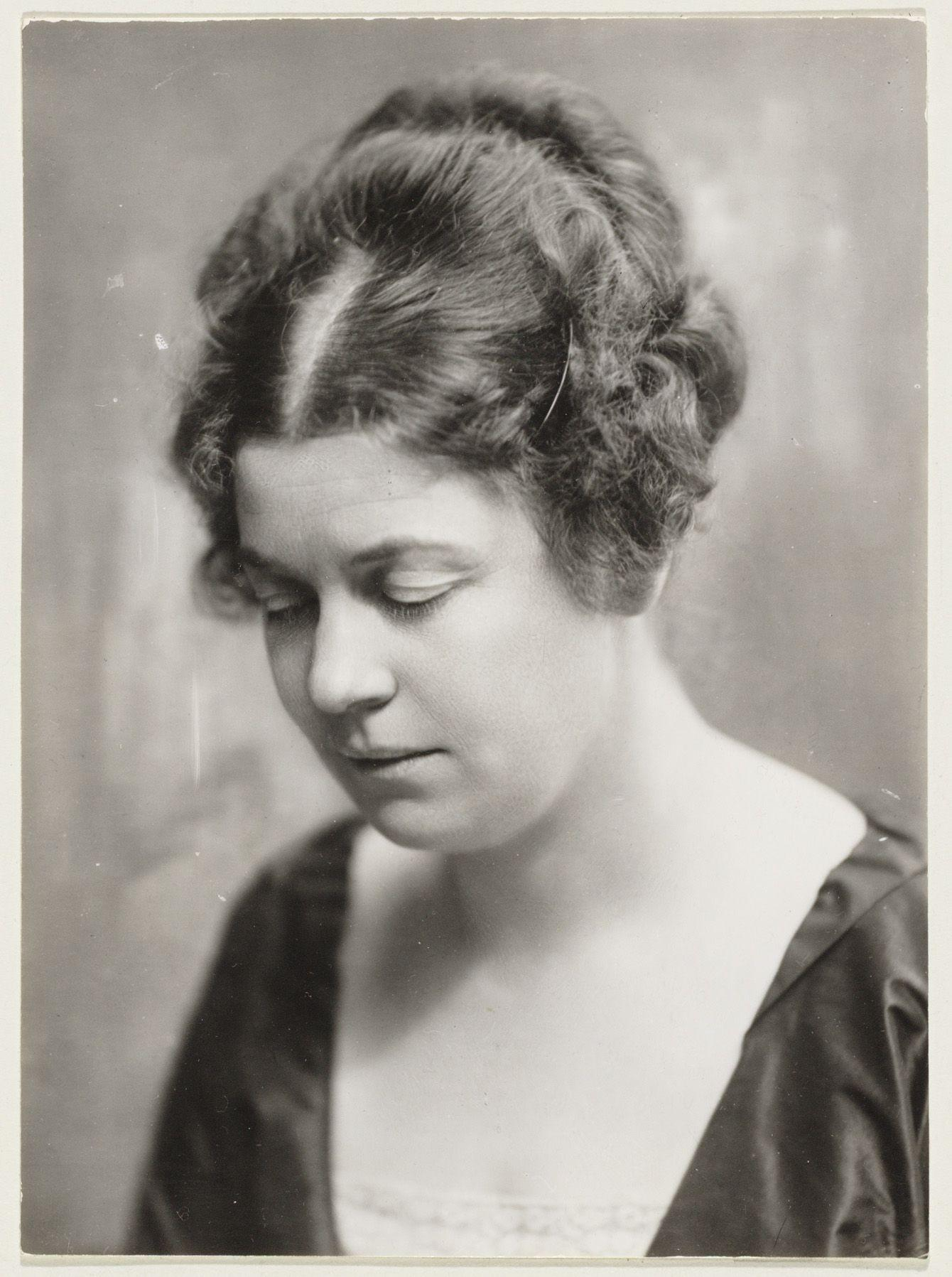 Dutch writer Top Naeff. Photograph by Jacob Merkelbach (1921)